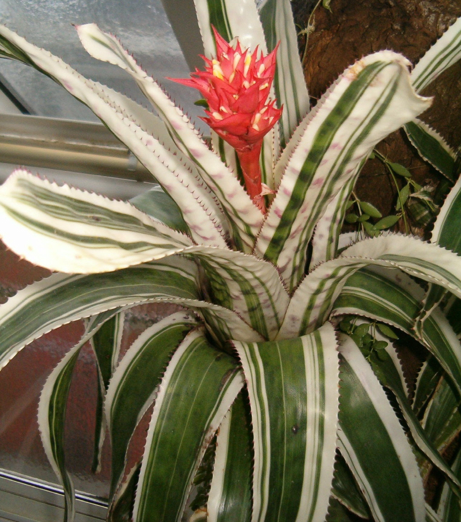 Location: Botanical Gardens Berlin Dahlem Habitus and Inflorescence